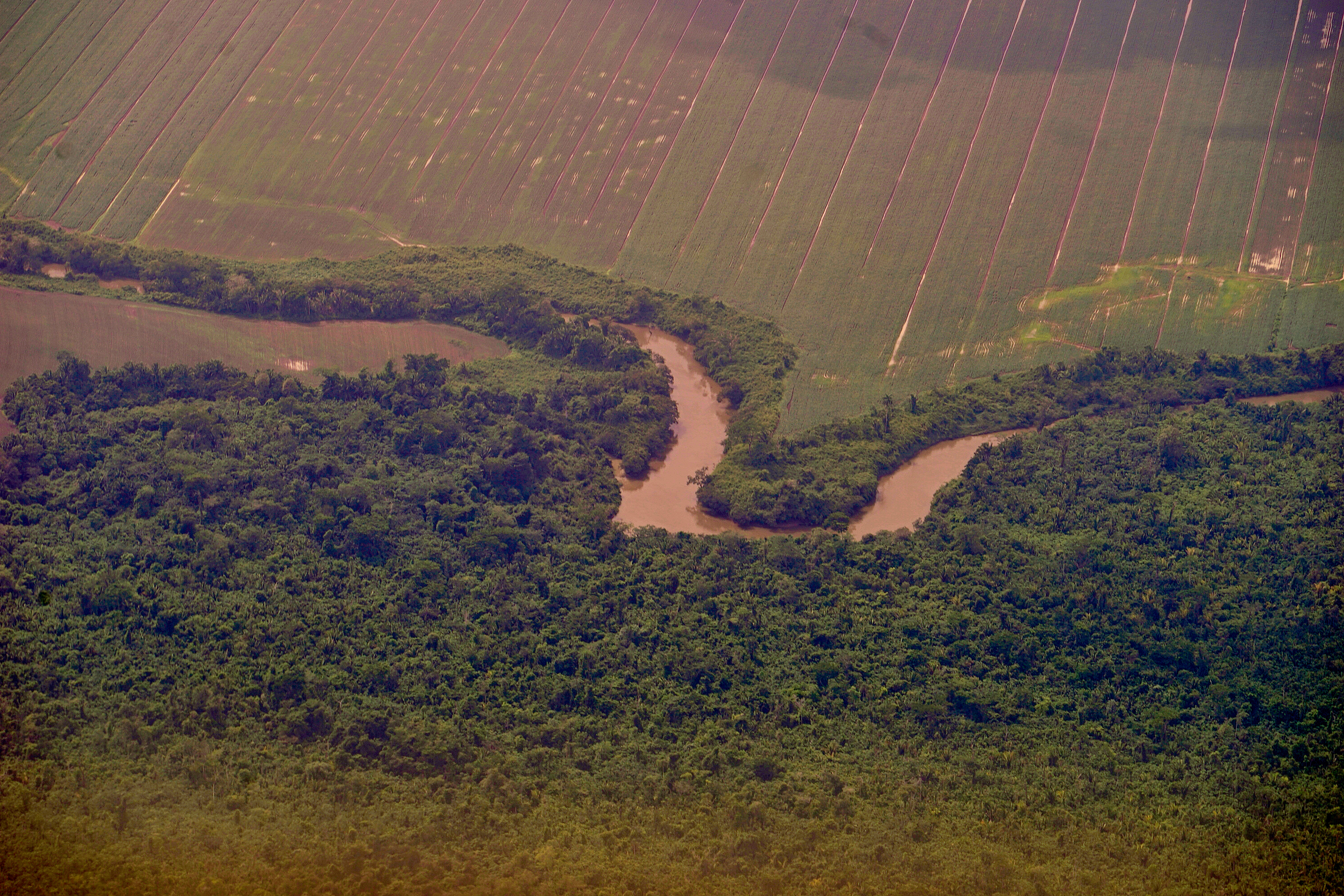 Aerial photograph of Belize along the Western Highway